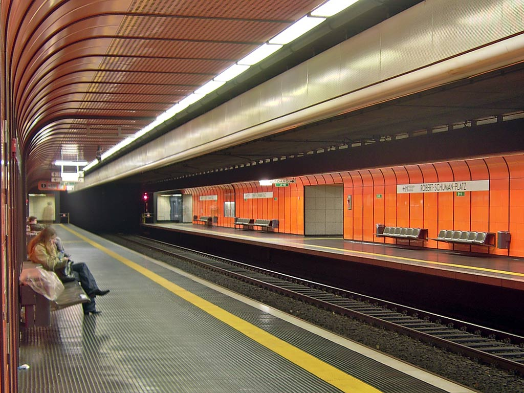 Underground station Robert-Schuman-Platz in Bonn-Hochkreuz.